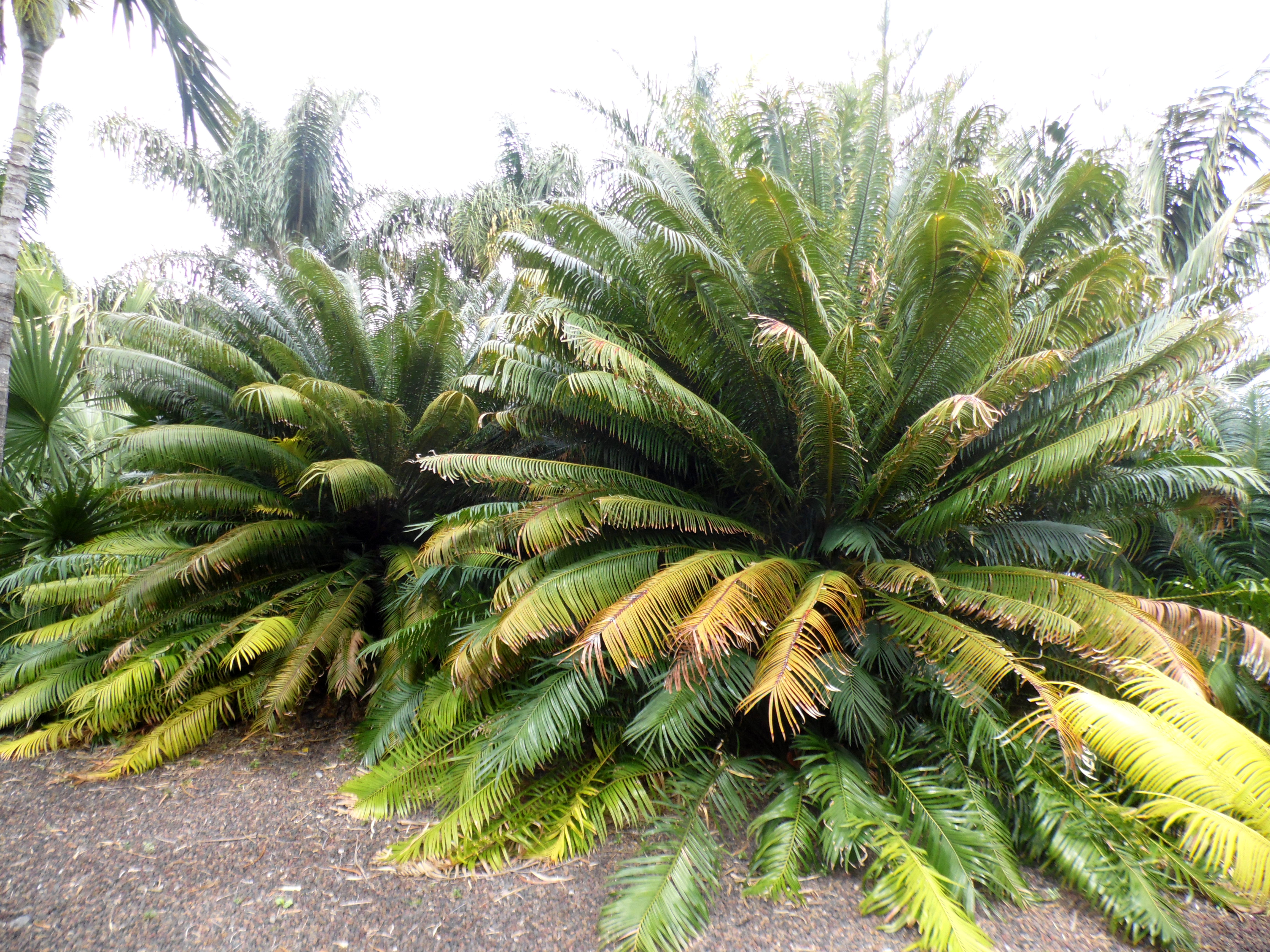 Cycas circinalis in Jardín Botánico Canario Viera y Clavijo, Gran Canaria